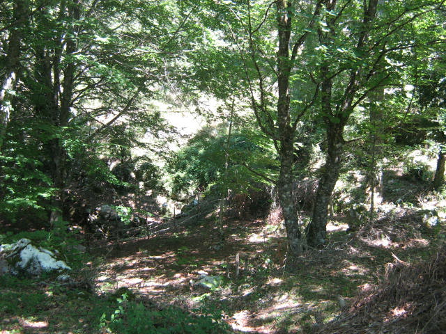 "Croce di Pruno", the wood in the middle of Pruno. In Cilento and Vallo di Diano National Park — in Campania.